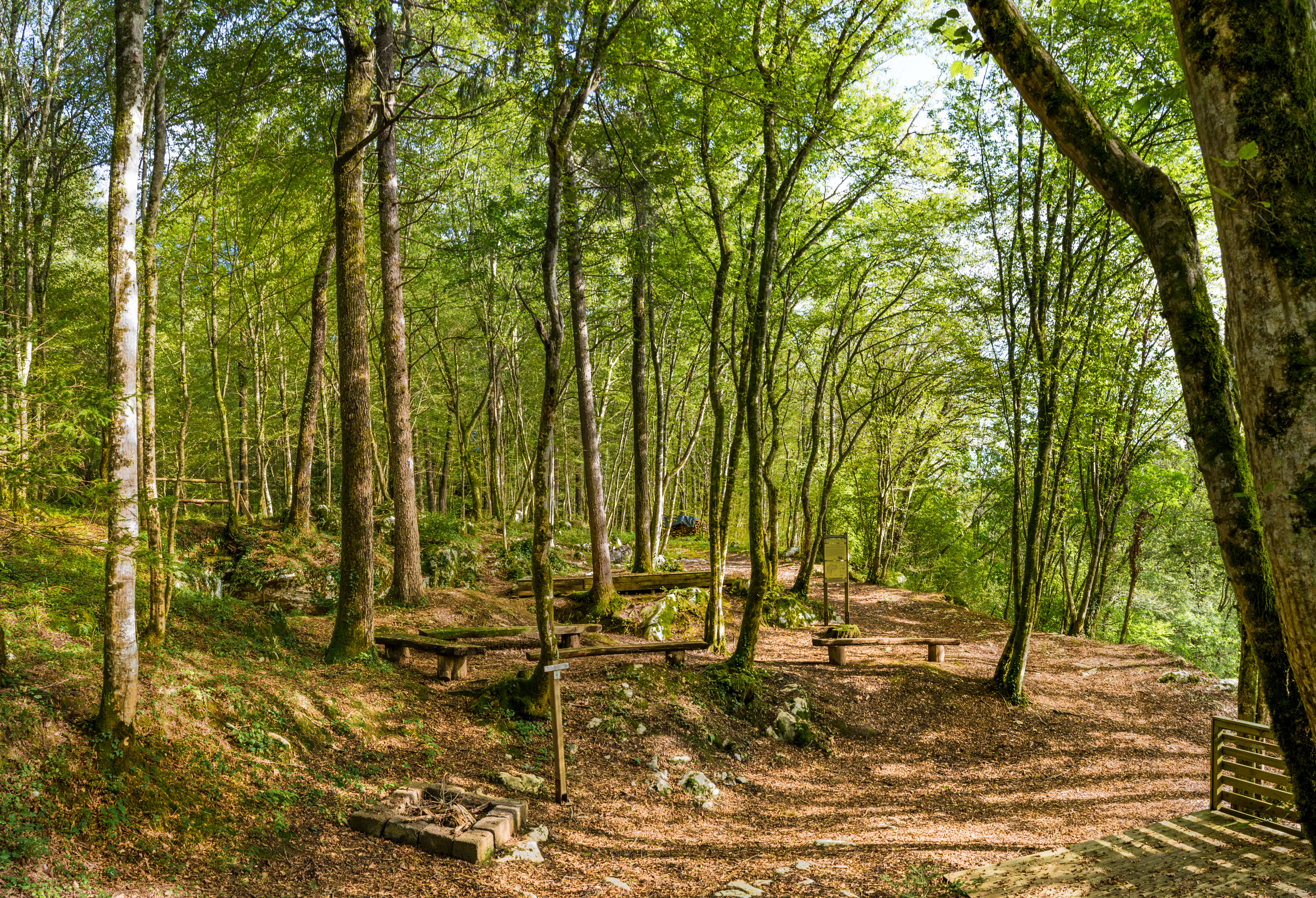 The only paleolithic site in Bela krajina called Judovska hiša (Eng.: Jewish house). It is located near the village of Moverna vas in the municipality of Semič. The cave was inhabited in the stone age with further findings proving that it was also inhabited in the neolithic and eneolithic era, that is new stone age and copper age.